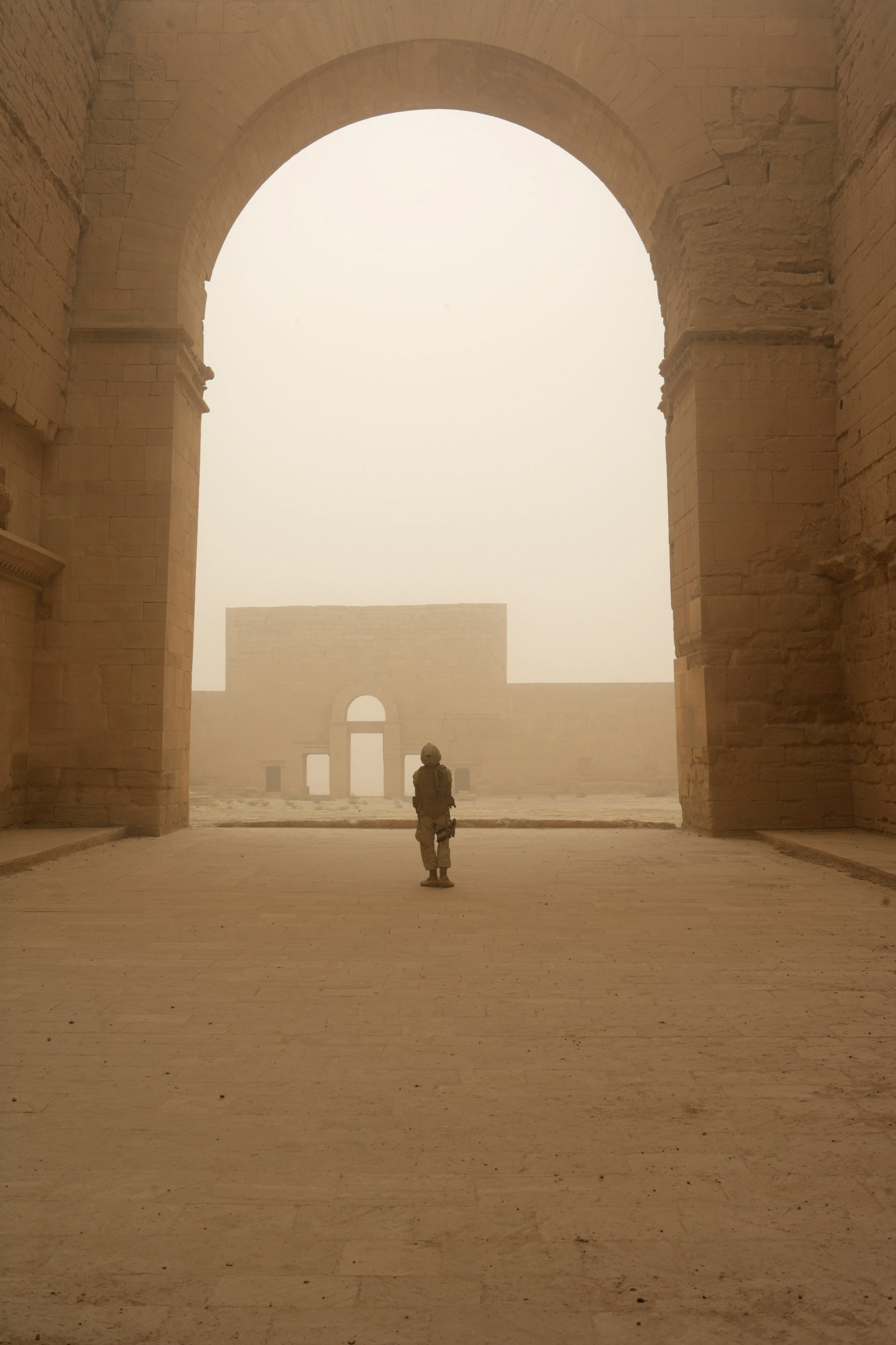 A U.S. Marine with a ground combat element assigned to Delta Company, 2nd Light Armored Reconnaissance Battalion, Task Force Mechanized, Multi-National Force - West walks through the Hatra Ruins in the Jazeerah Desert in Iraq on July 20, 2008. The task force is conducting disruption operations in the area to deny the enemy sanctuary and prevent foreign fighters from accessing the area. DoD photo by Lance Cpl. Albert F. Hunt, U.S. Marine Corps.